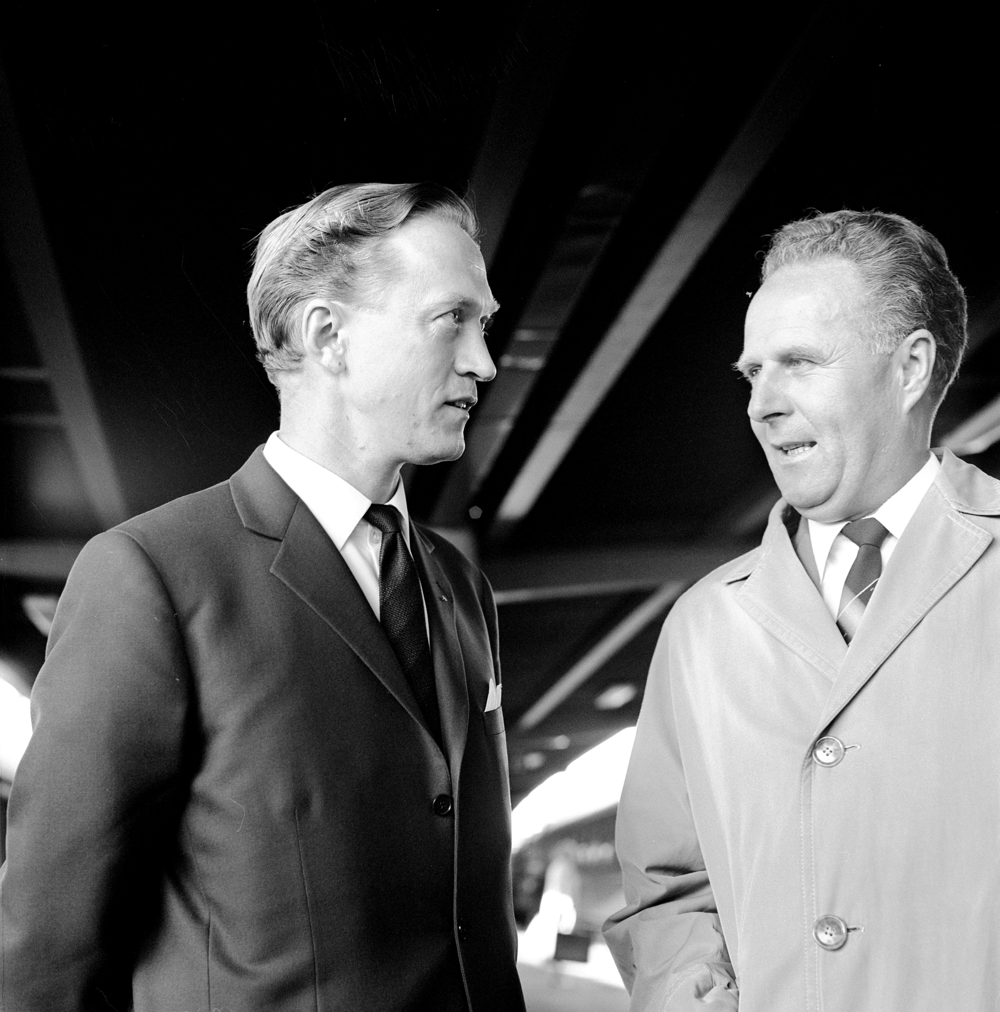 The Director-General of the Swedish State Railways, Lars Peterson (to the left), with his czechoslovak counterpart at Stockholm Central Station.